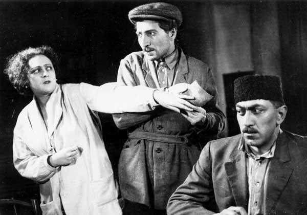 Cadre from Azerbaijani film "Sevil"